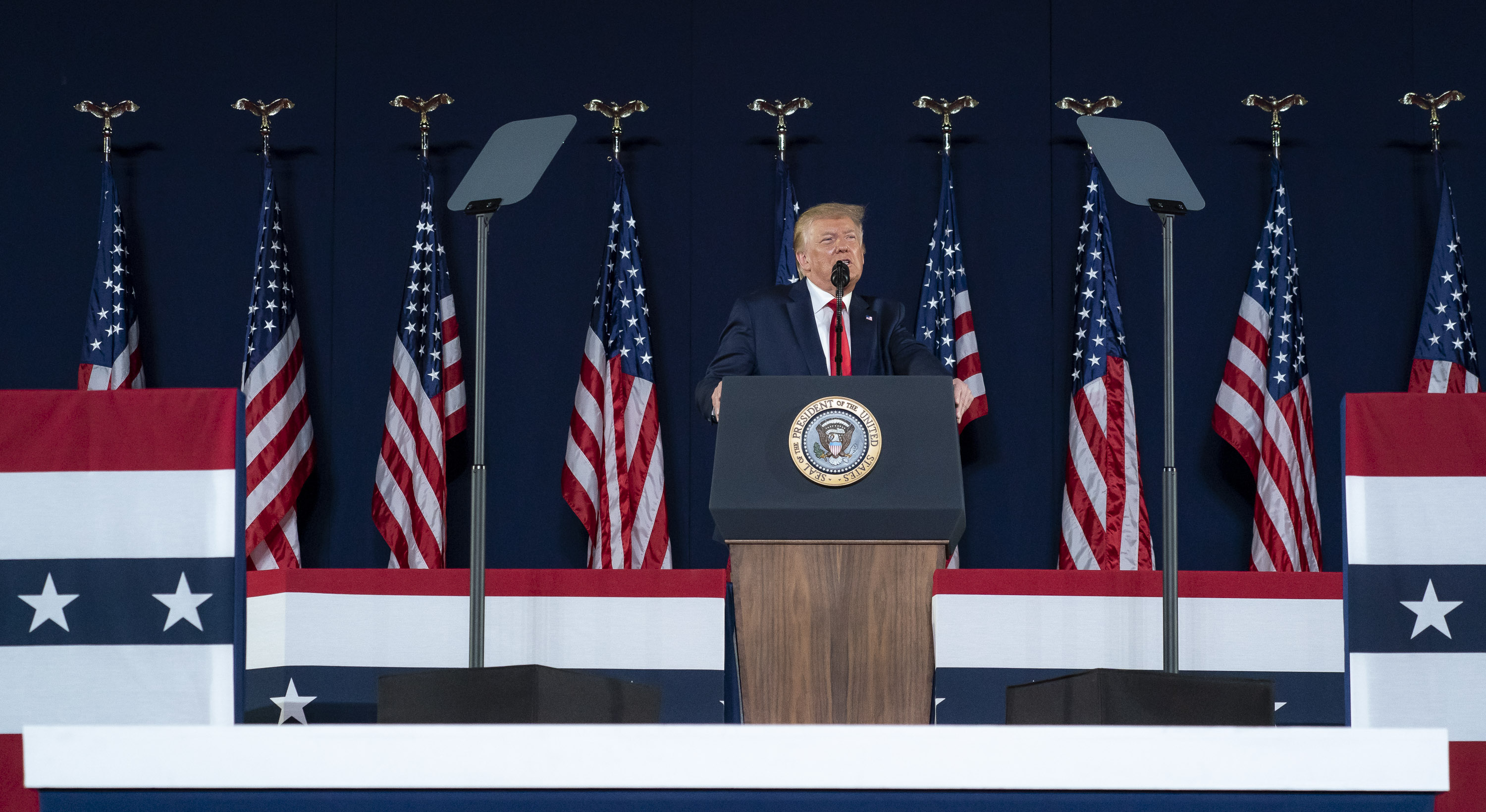 President Donald J. Trump delivers remarks Friday, July 3, 2020, at South Dakota’s 2020 Mount Rushmore Fireworks Celebration at the Mount Rushmore National Memorial in Keystone, S.D. (Official White House Photo by Tia Dufour)